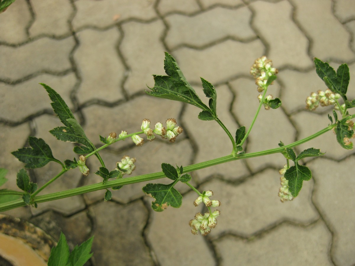 Artemisia lactiflora Wall. ex DC. Photographed at the Queen Sirikit Botanic Garden (Chiang Mai Province, Thailand) in March